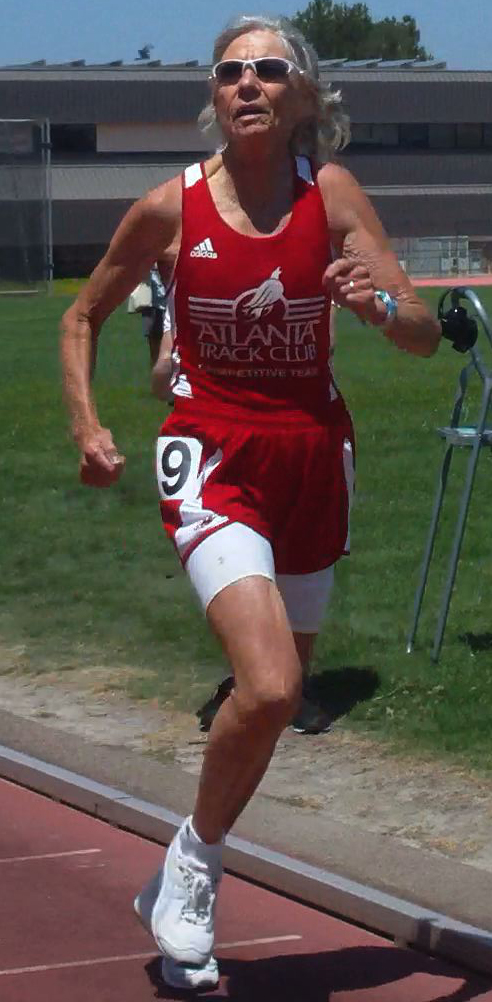 Jeanne Daprano finishing her W75 World Record Mile run at Cal Tech in Pasadena, California